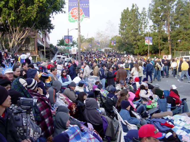 The normally massive crowd gathering to watch the en:2004 Rose Parade, some pay for seats in stands (far left), others spent the night to "reserve" a free spot. in Pasadena, California